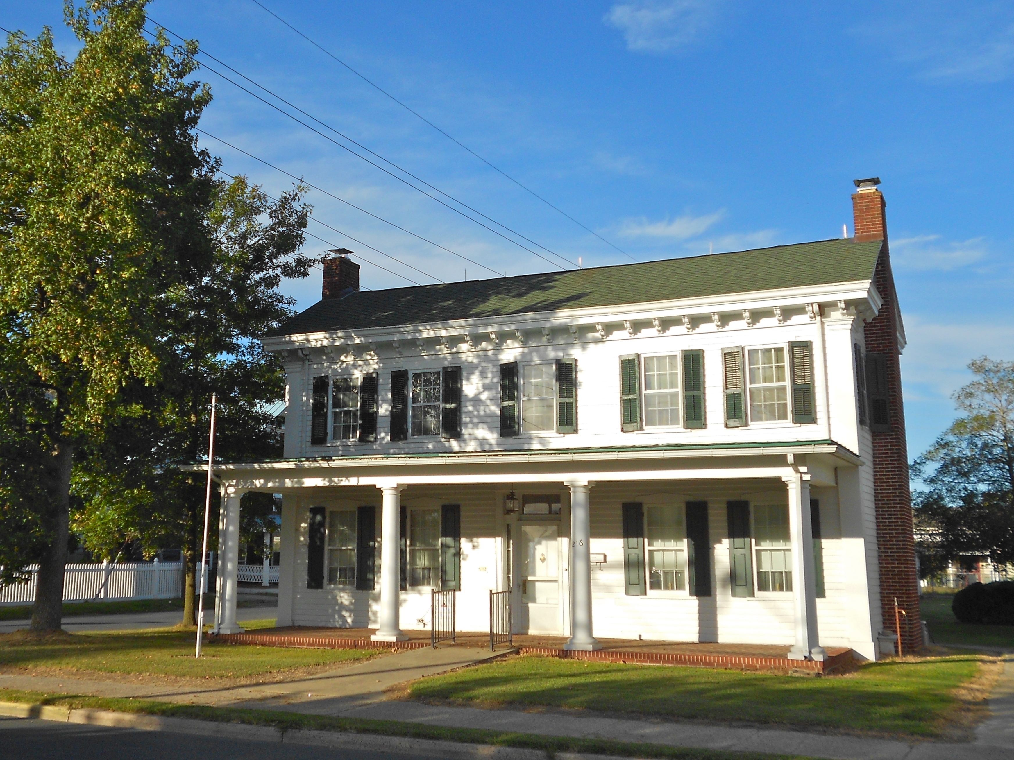 Thomas Sipple House listed on the NRHP on September 5, 1985. At N. Bedford & New Sts., Georgetown, Sussex County, Delaware.